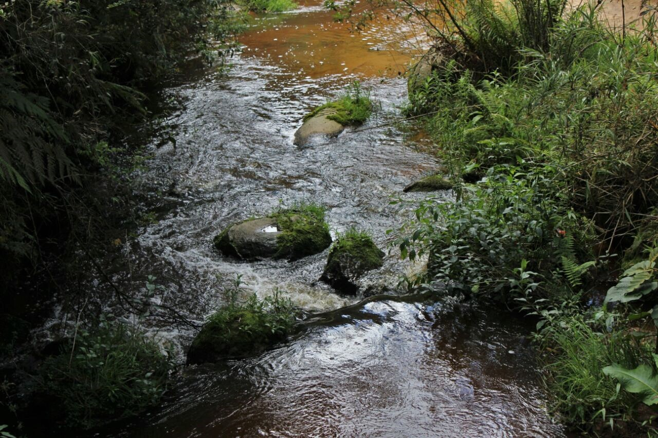 Río Chocó, Santa Rosa de Osos, relativamente cerca a su nacimiento